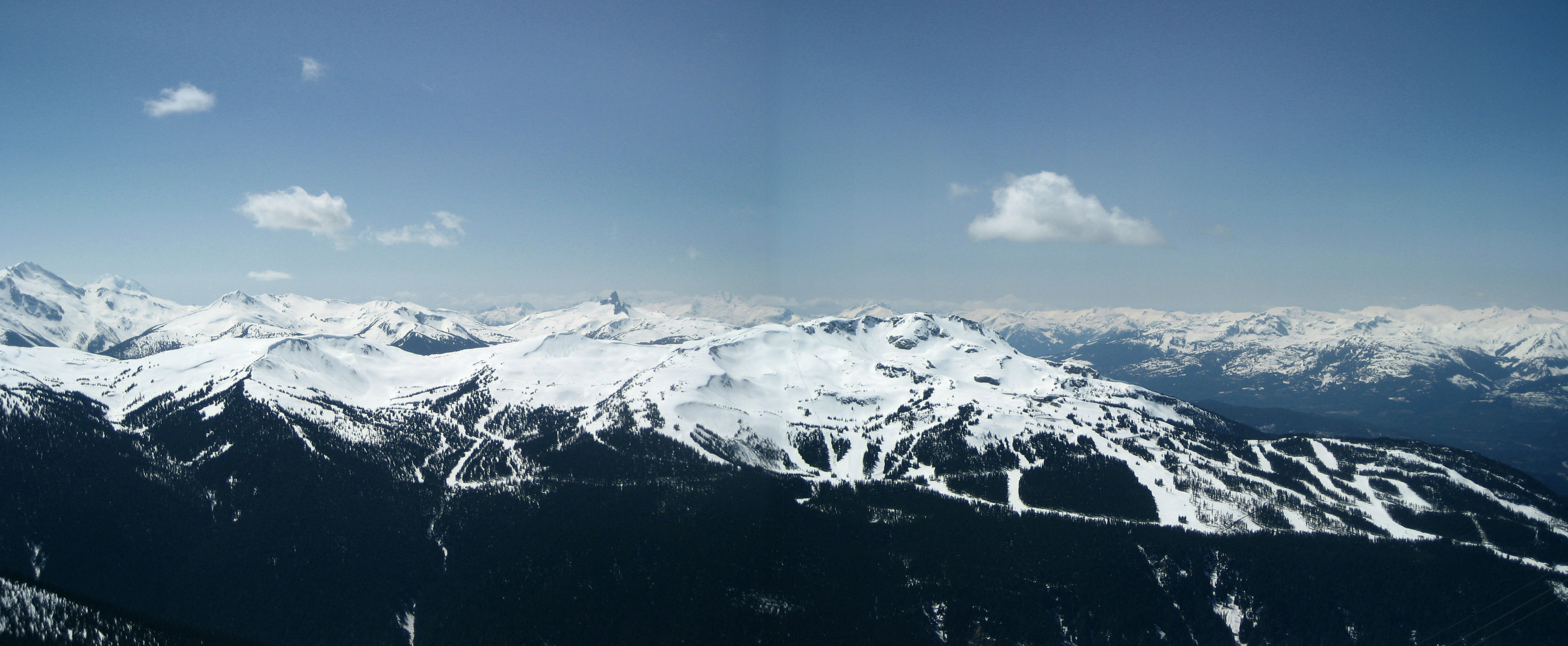 Whistler Mountain in British Columbia, Canada.